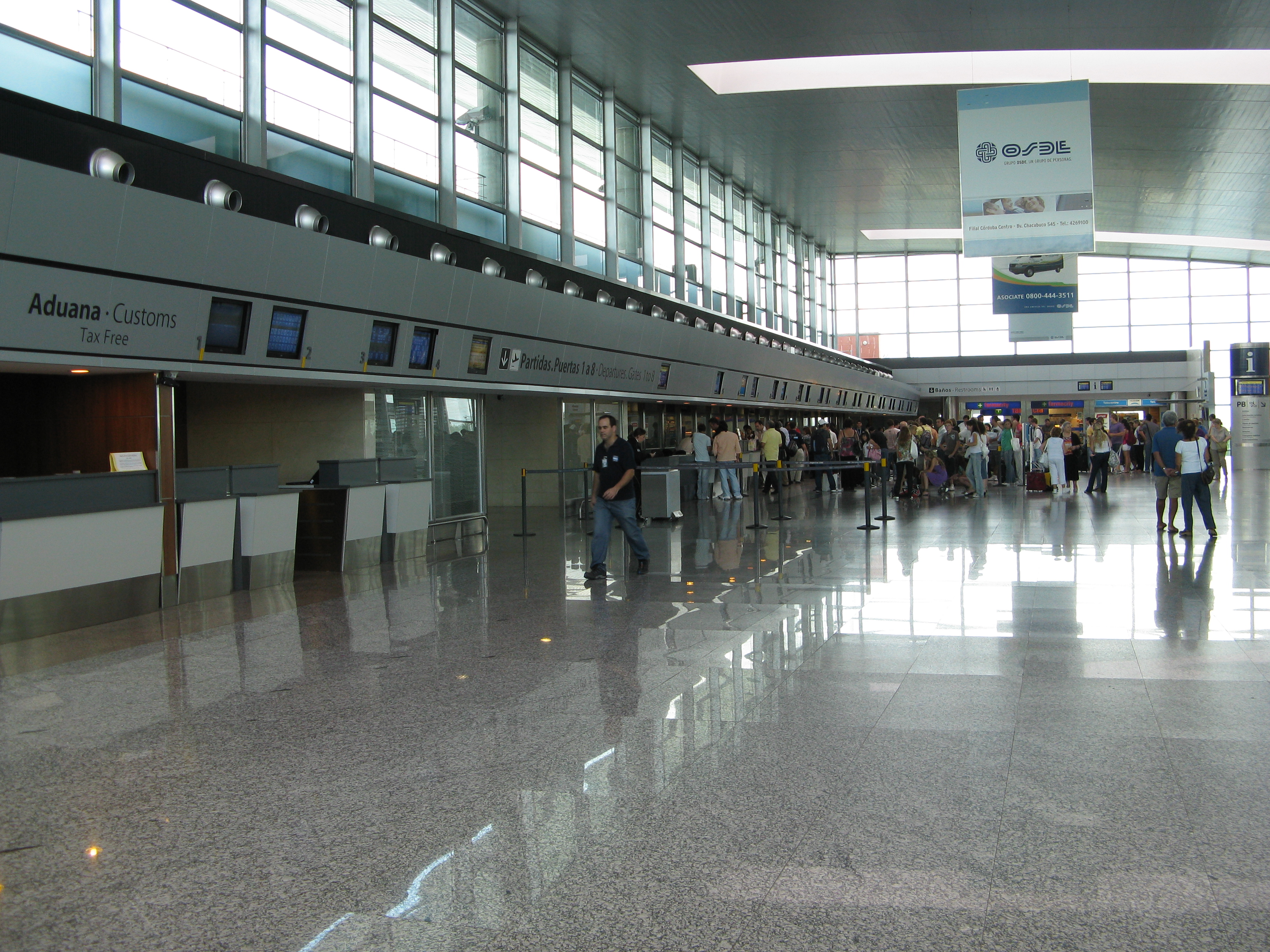 Ingeniero Ambrosio Taravella international airport. Cordoba, Argentina.